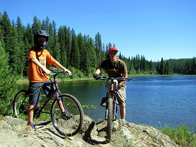 Mountain bikers on 2nd Champion Lakes trail.